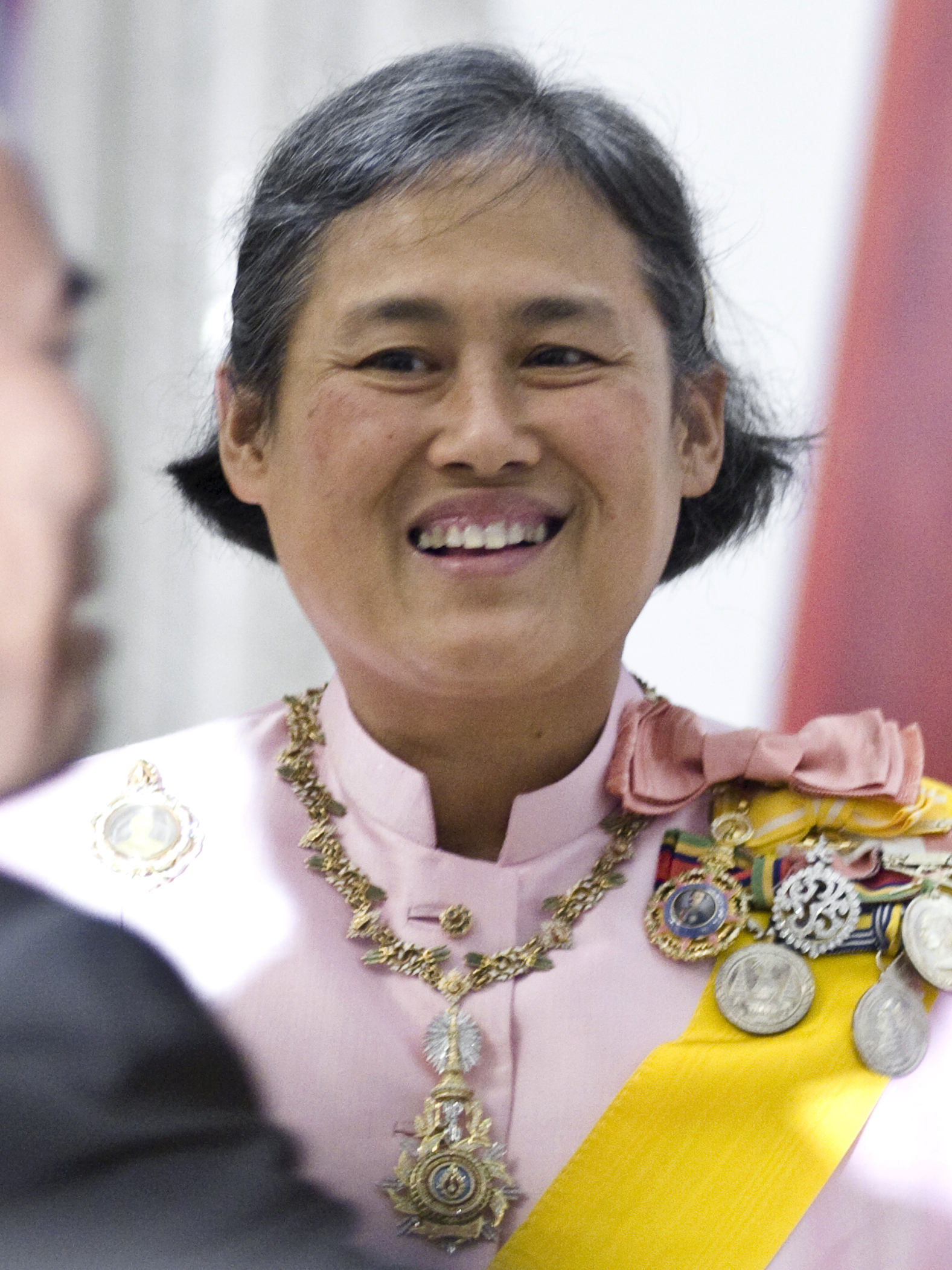 HRH Princess Maha Chakri Sirindhorn at the Royal Thai Government House on December 7, 2009, at a gala dinner (งานสโมสรสันนิบาต) hosted by the goverment in honou